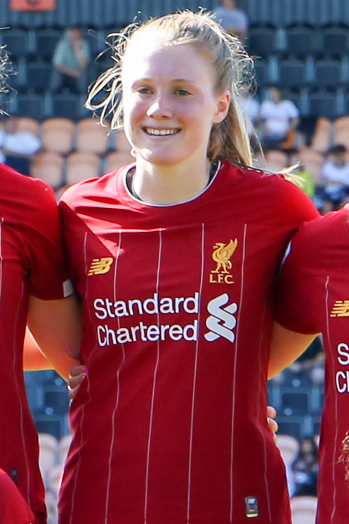 2019–20 FA WSL: Tottenham Hotspur FC Women v Liverpool FC Women, 15 September 2019 – Liverpool starting line-up.